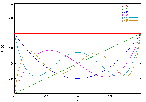 Graph of legendre polynomials, generated by the commands in gnuplot shown below. The eps was tweaked and converted to the PNG image format using the GIMP.